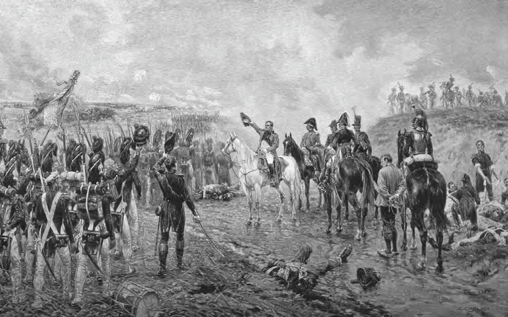 Napoleon's last grand attack at Waterloo: Napoleon addresses the Old Guard as it prepares to attack the Anglo-Allied center at Waterloo.